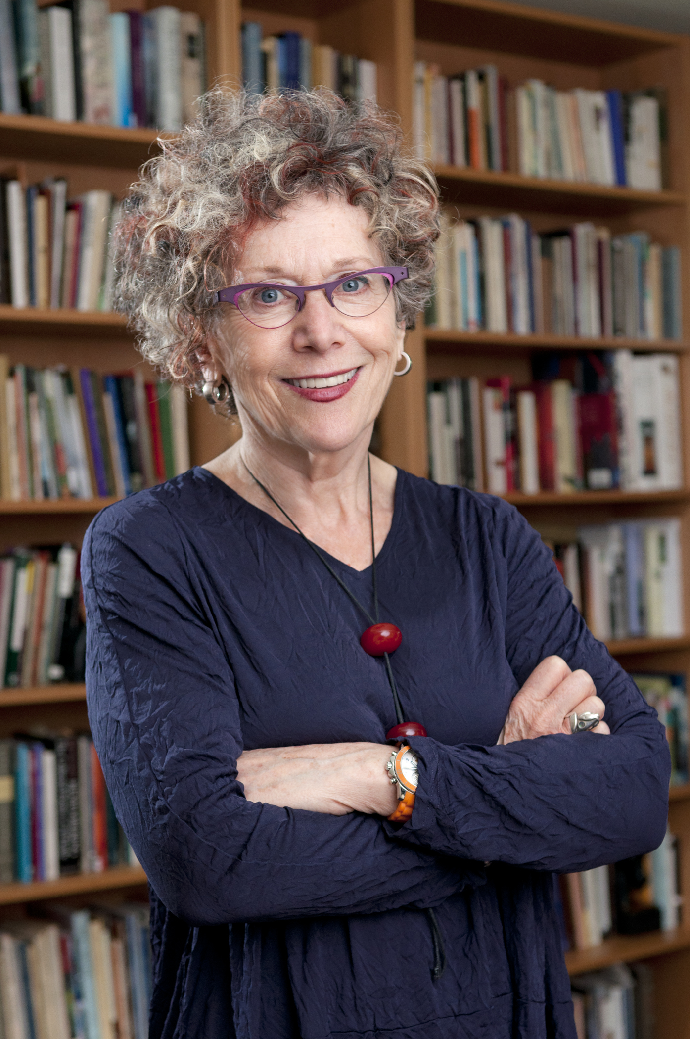 Lorna Crozier, an award-winning poet, essayist and professor emeritus who has authored 18 poetry books and two children’s books, and is a member of the Royal Society of Canada and an officer of the Order of Canada.